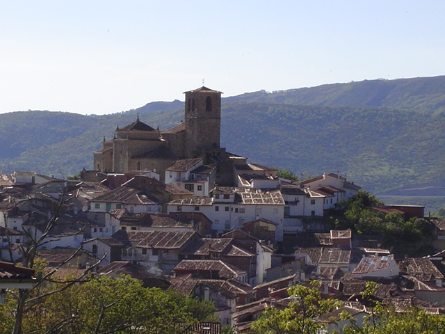 Hervas